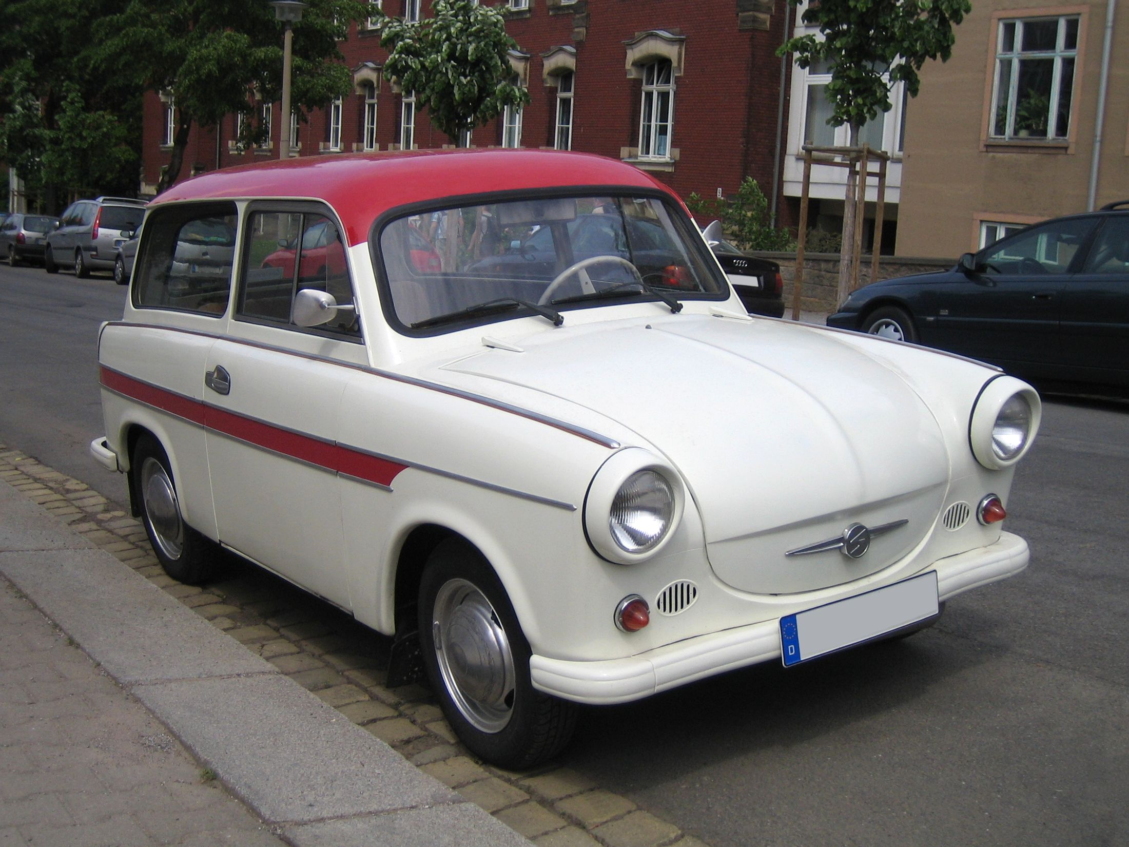 Trabant 600 station wagon (front view)